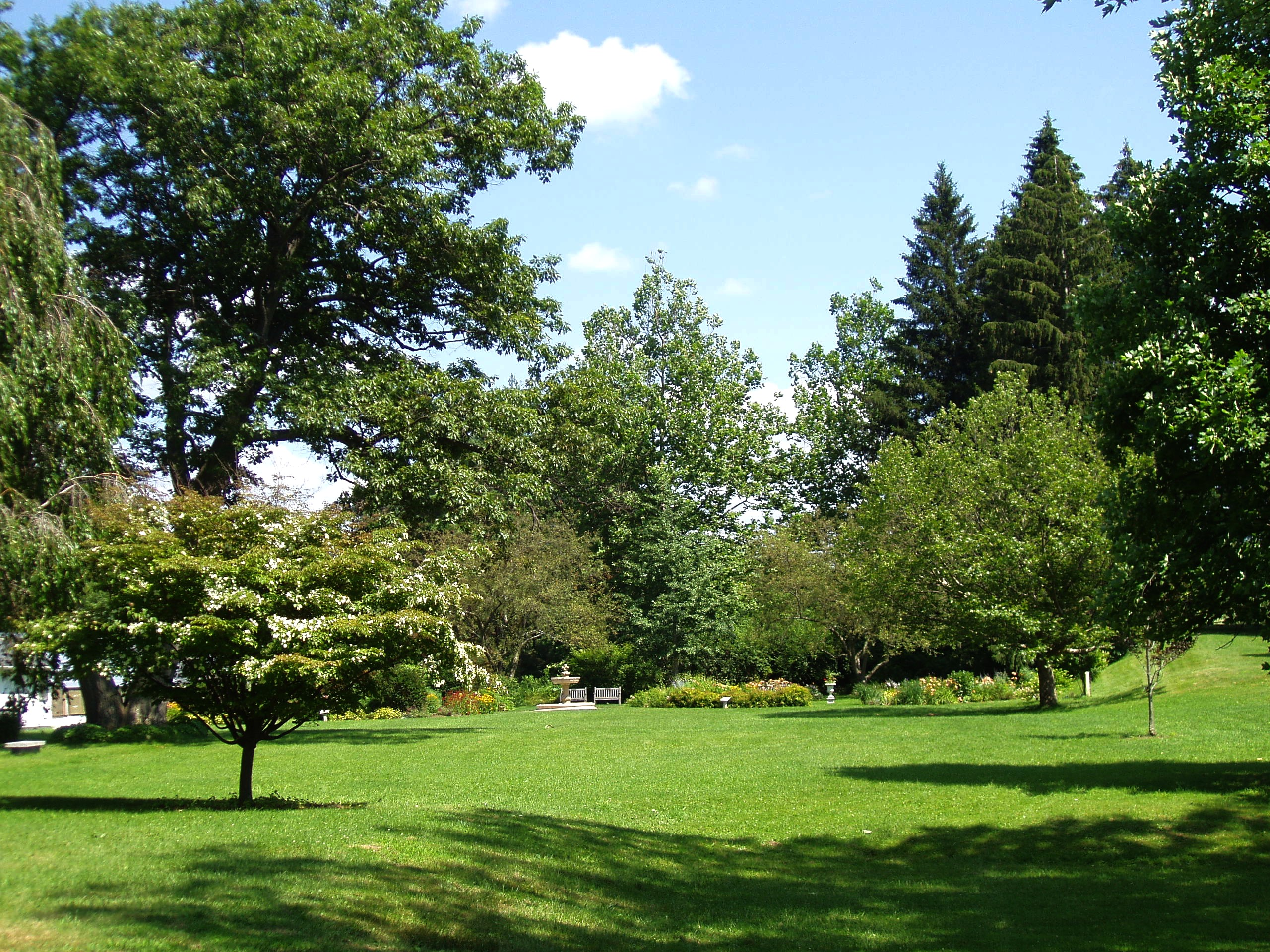 Hebert Arboretum, Pittsfield, Massachusetts, USA. View towards the gardens.